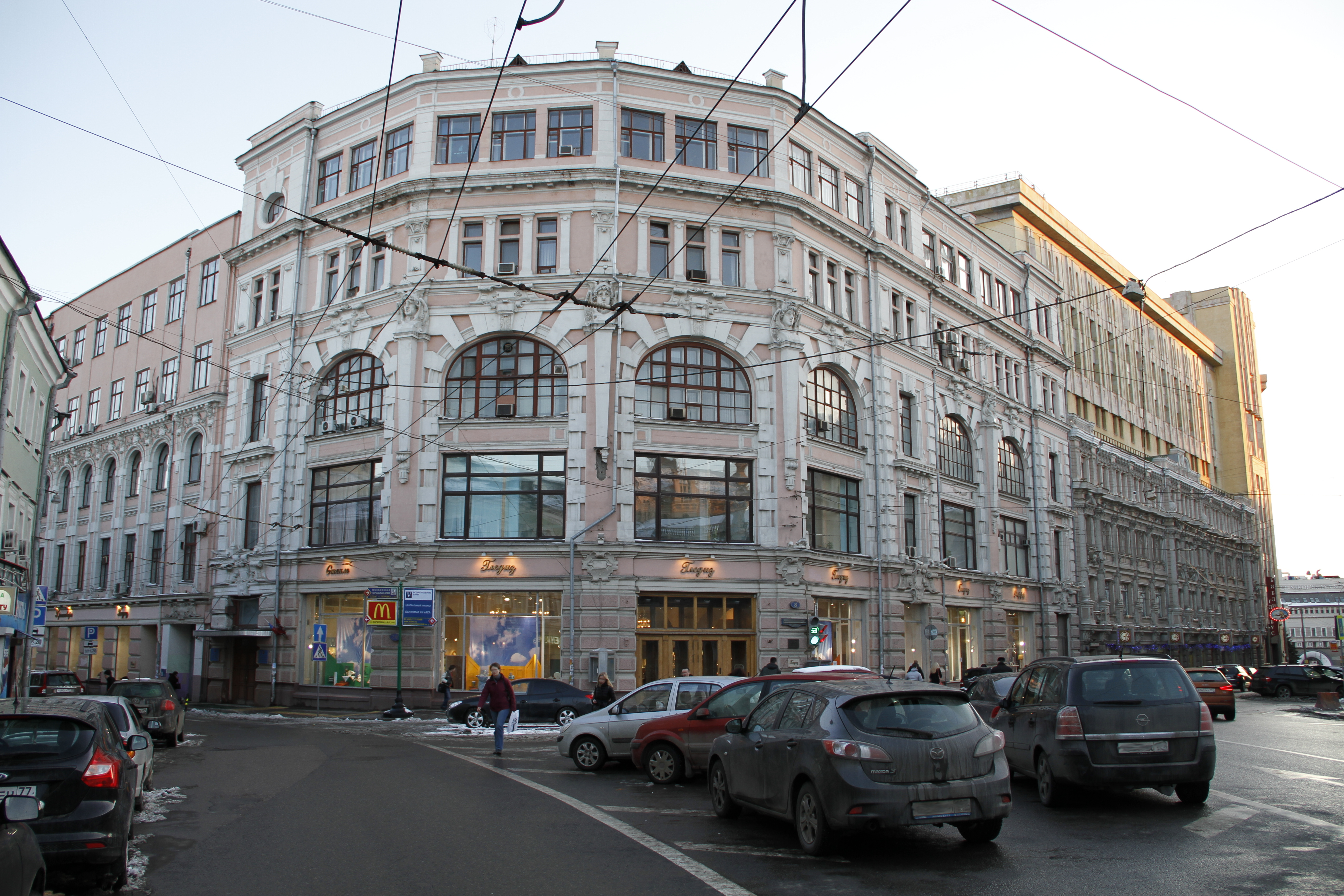 Moscow. The Trading House of M.S. Kuznetsov